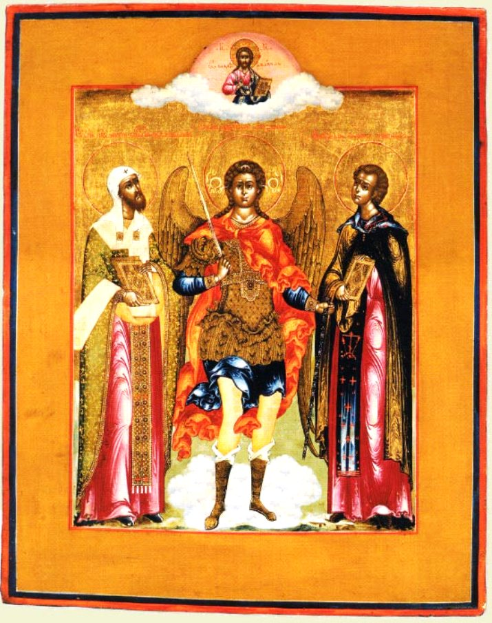 Archangel Michael, st. John and st. Leontius